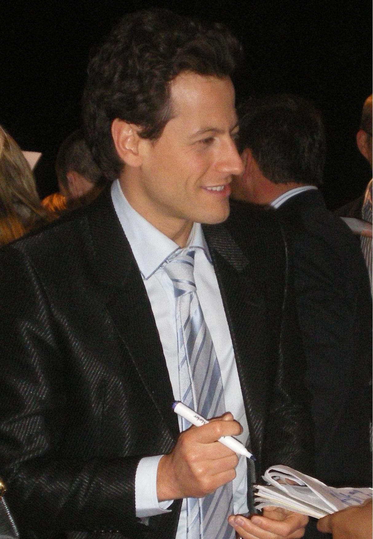 Welsh actor Ioan Gruffudd, signing autographs for fans on 4 May 2007 at Southland Shopping Centre in Melbourne, Australia, while promoting the film Fantastic Four: Rise of the Silver Surfer.